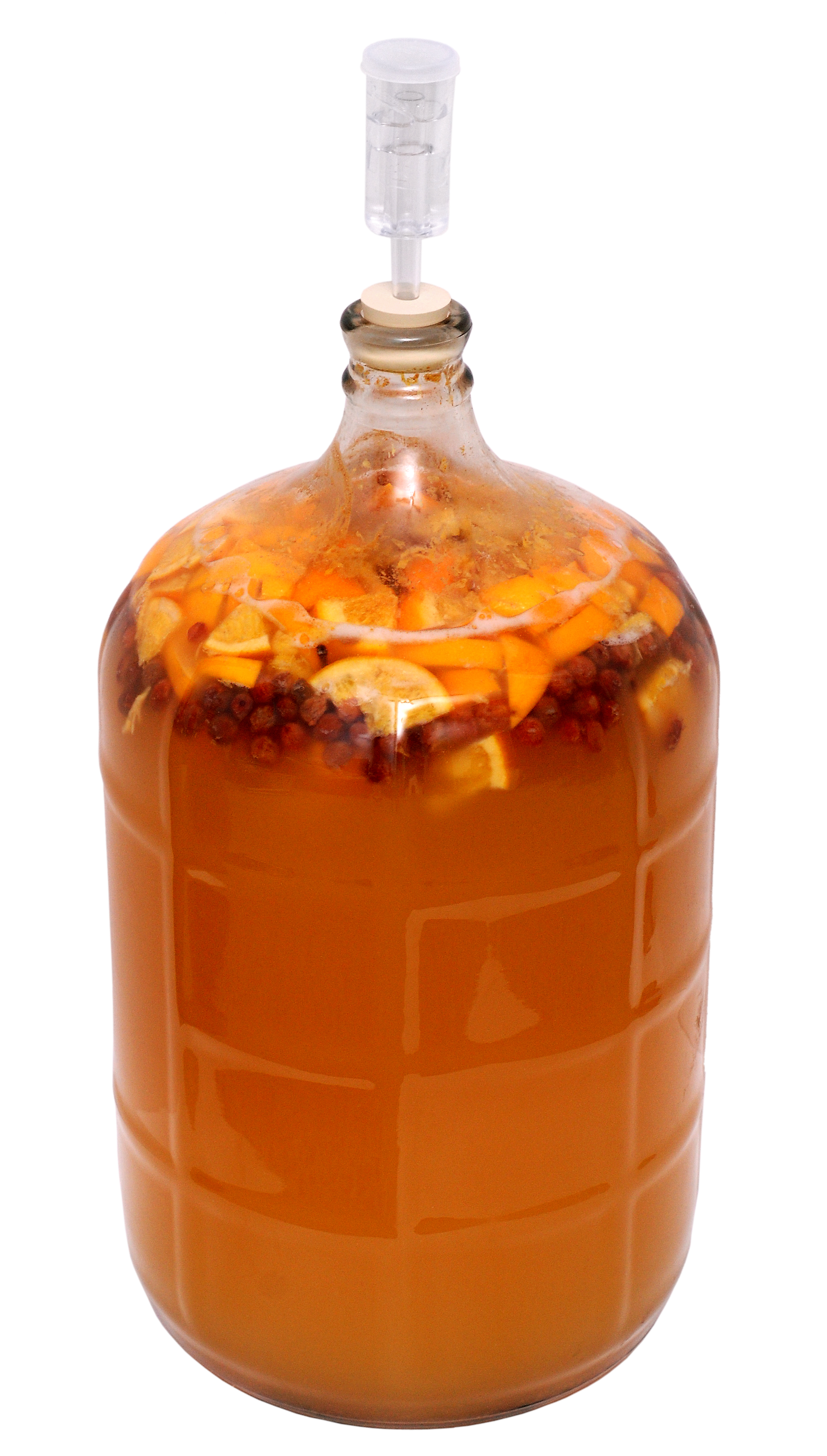 A batch of homemade honey and fruit mead brewing in a large jar.